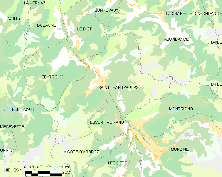 Map of French municipality Saint-Jean-d'Aulps